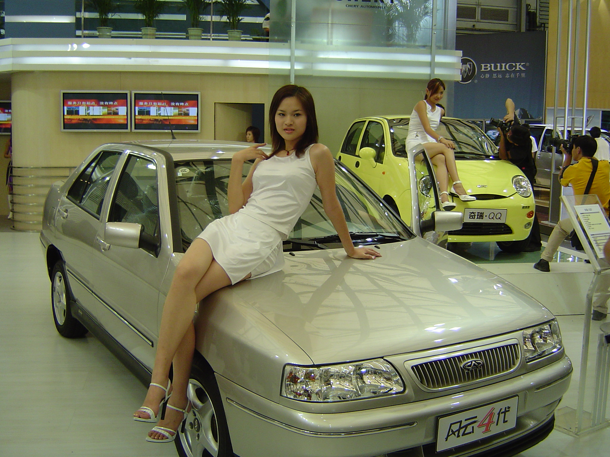 2004 Chery Fulwin at Shanghai Shi, Shanghai, China. (Flickr set : Autoshow 2004)